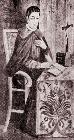 Fr. Jacome Gonsalves writing